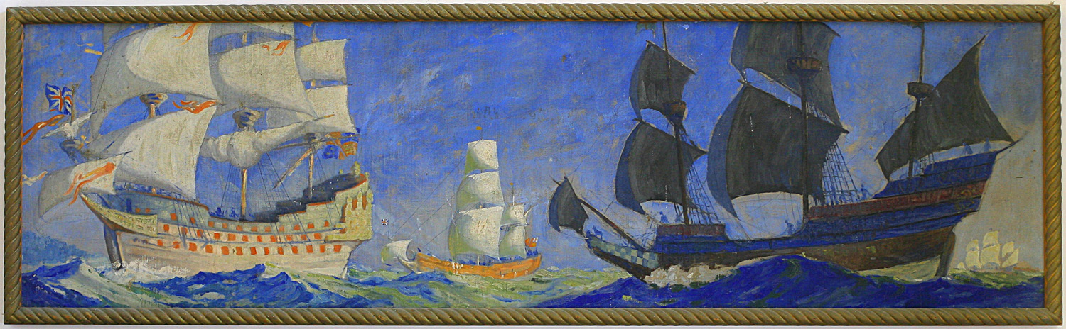 BPLDC no.: 09_03_000069 Subtitle: Dreadnought, The Sovereign of the Seas; Ketch; Drake's ship, Golden Hilden Creator: King, Frederic Leonard (American painter and illustrator, 1879-1947) Date created: 1934-1935 General format: oil on canvas BPL Department: Special Collections, East Boston Branch Library Dimensions: visible image 22 ½ x 84 in., framed 25 ½ x 87 in. Description: (left to right) Dreadnought, The Sovereign of the Seas Built in 1637 by Charles I, the dreadnought Sovereign might easily have been a contemporary of the Great Harry, which was 120 years older. Ketch The ketch was a 17th century fore-and-aft rigged vessel with main mast and small mizzen set forward of the rudder post. Square sails were used. Drake's ship, Golden Hind When Drake started out upon his famous voyage around the world in the year 1577, all he had was a vessel not larger than the Santa Maria of almost a century before. It was called, poetically enough, the Golden Hind, but it was in reality only a hundred-ton, three-master with just enough men to handle her. Notes: The description above was written in 1935. Ships Through the Ages, originally four murals painted by Frederic Leonard King between 1934 and 1935, was commissioned as part of the Public Works Art Project for the Jeffries Point Branch of the Boston Public Library. In 1956, the Jeffries Point Branch closed, and each mural was divided into multiple paintings and relocated to the East Boston Branch Library where they are currently on display; however, several sections of the murals are missing